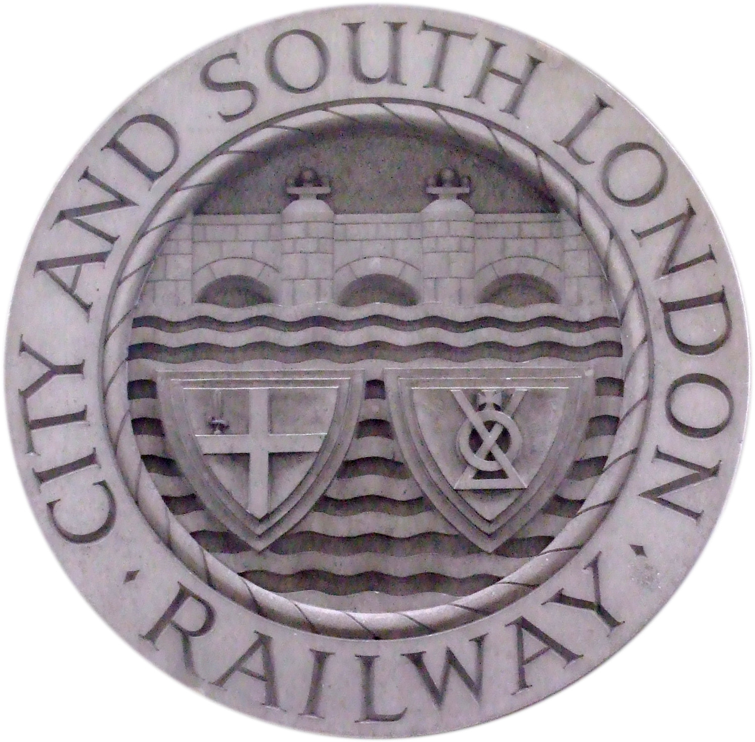 Arms of the City and South London Railway on the reserve side of the pedestal of the monument to James Henry Greathead in the City of London. The arms incorporate, the arms of the City of London (bottom left) and the Southwark Cross (bottom right) representing the two parts of the city connected by the railway. The wavy bars represent the River Thames under which the railway tunnelled and the bridge represents London Bridge, close to which the tunnels ran.